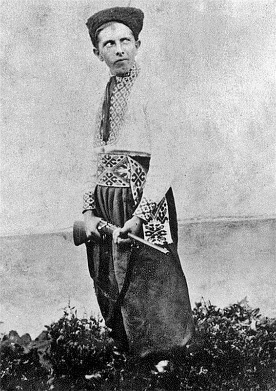 Stepan Bandera in cossack uniform